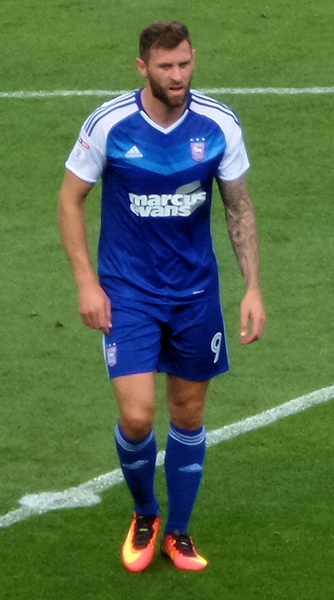 Daryl Murphy playing for Ipswich Town against Barnsley on 6 August 2016